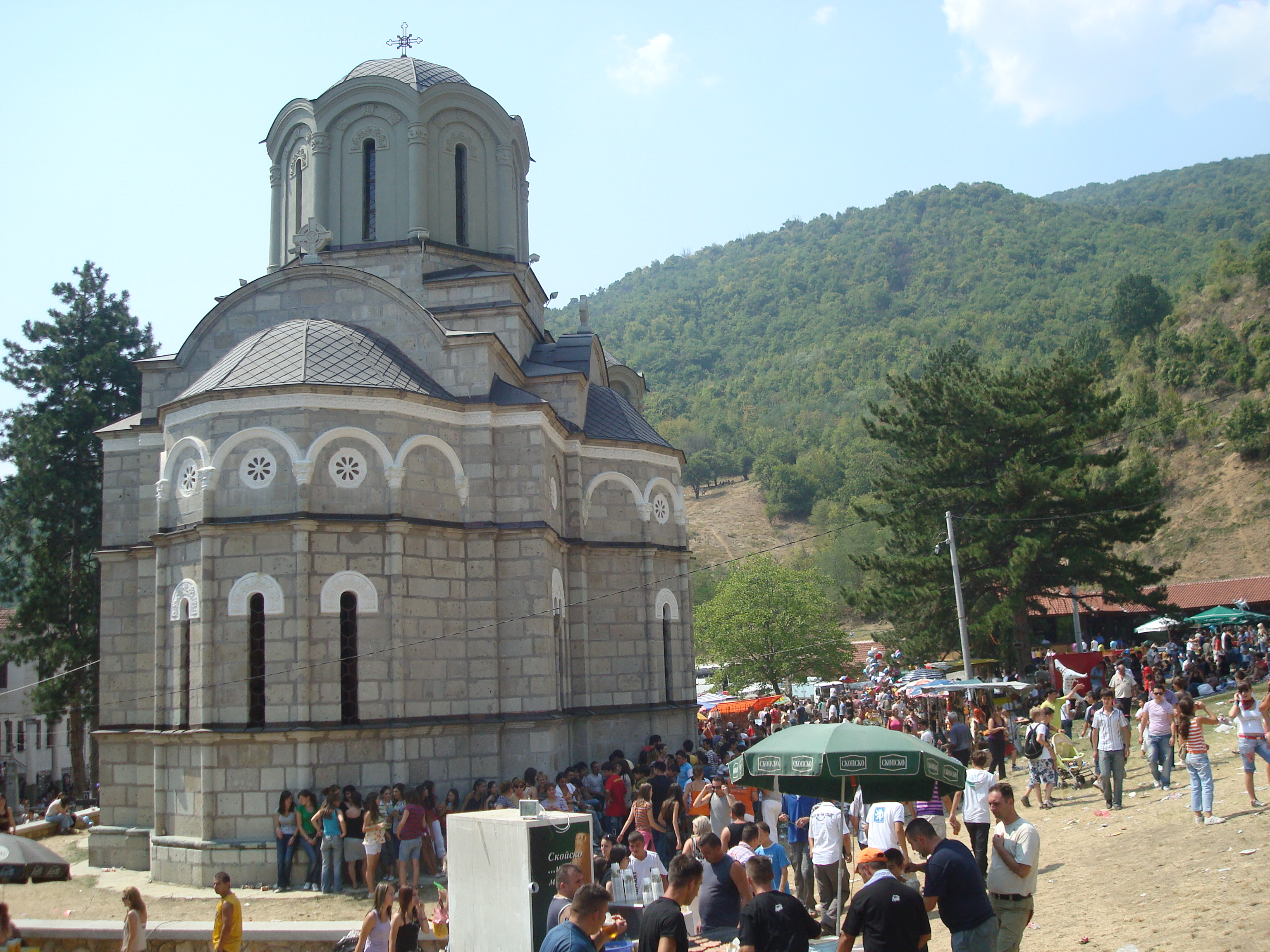 St. Athanasius church in Lešok, Macedonia